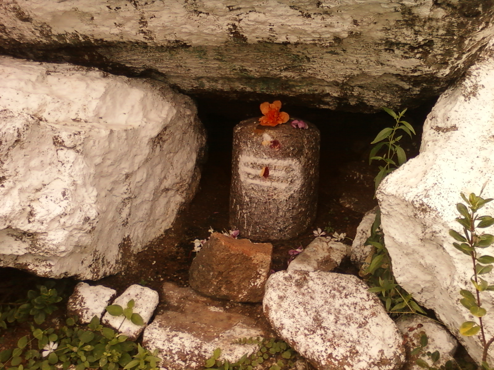 Shiva lingam at Ramalingeswara temple in Saripalli village, Vizianagaram district